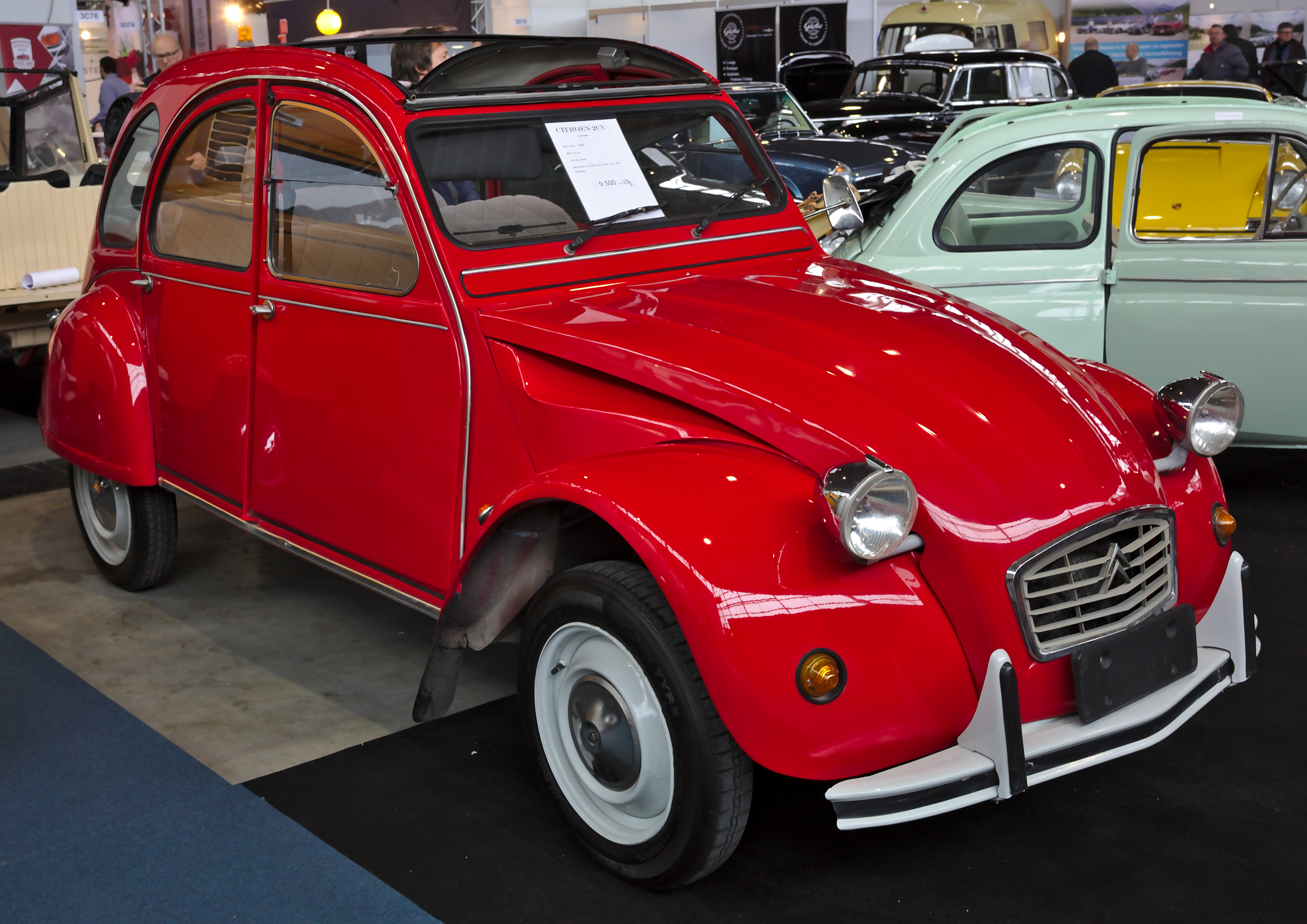 Citroen 2CV at Retro Classics 2018